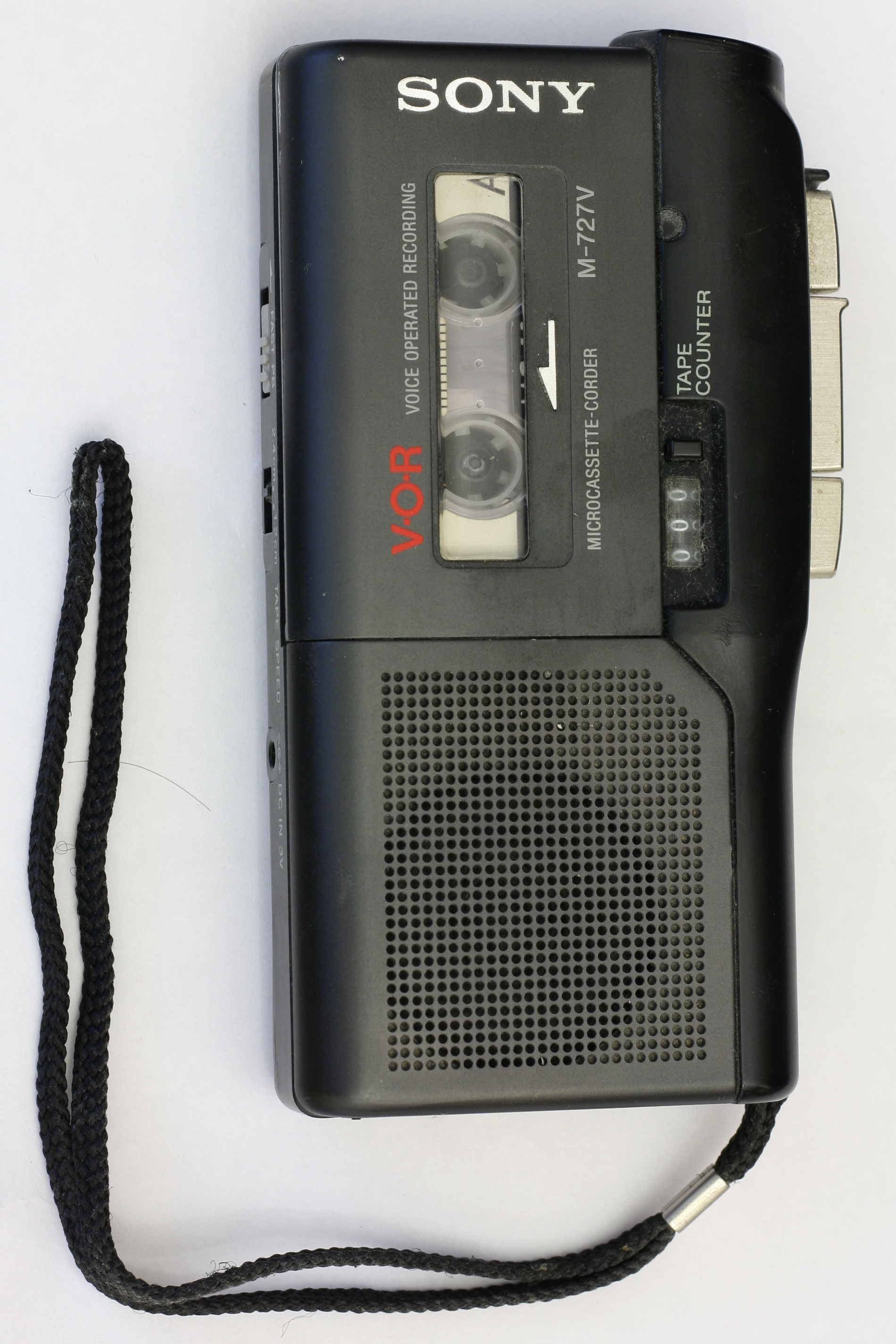 Sony dicaphone M-727V